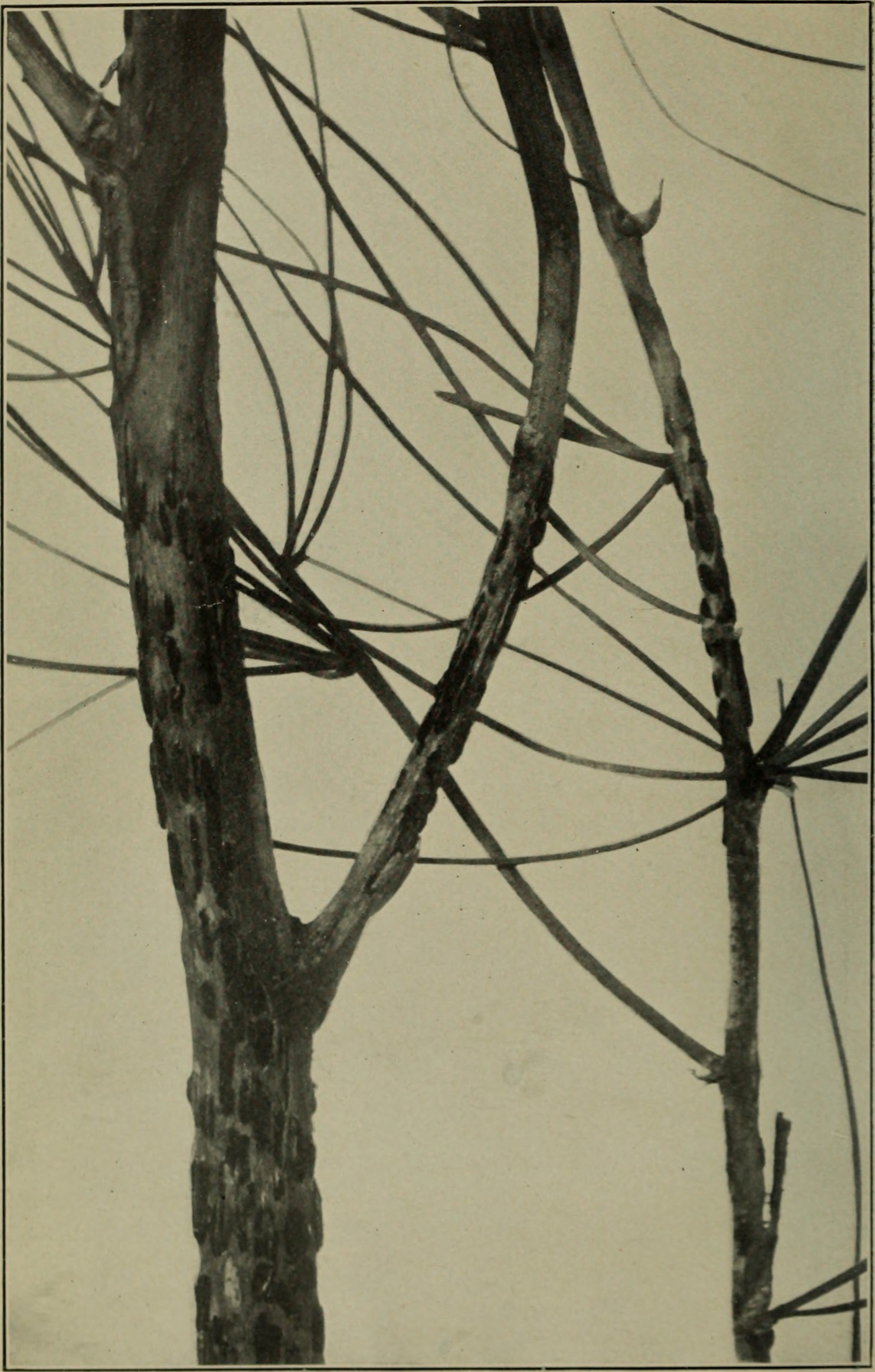 Title: Bulletin. 1901-13 Year: [1] (s) Authors: United States. Bureau of Plant Industry, Soils, and Agricultural Engineering Subjects: Agriculture; Agriculture Publisher: Washington Govt. Print. Off Text Appearing Before Image: Bui. 263, Bureau of Plant Industry, U. S. Dept. of Agriculture. Plate IV. Text Appearing After Image: Asparagus Branch with Sori of Puccinia asparagi in Uredo and Teleuto Stages. x5.